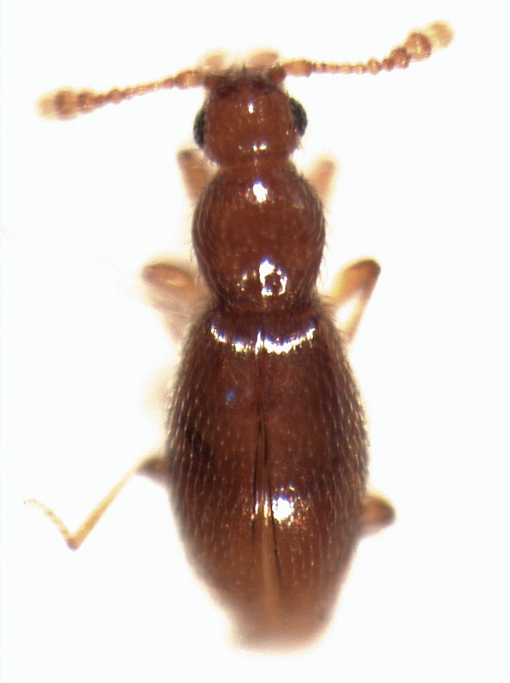 adult Microscydmus, probably M. lynfieldi (body length less than 1 mm)